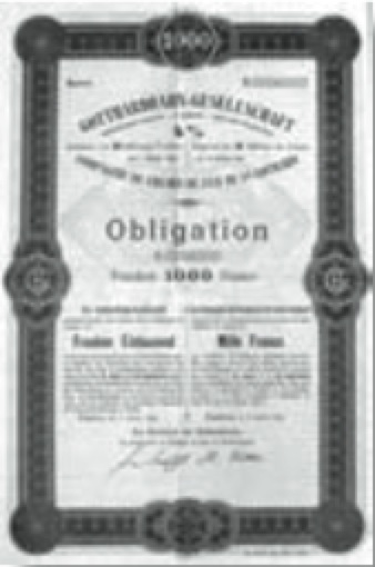 Gray scale low resolution scan of bond certificate for 1000 chf of the Gotthardbahn-Gesellschaft. Original colors are blue and brown. The original size is unknown.